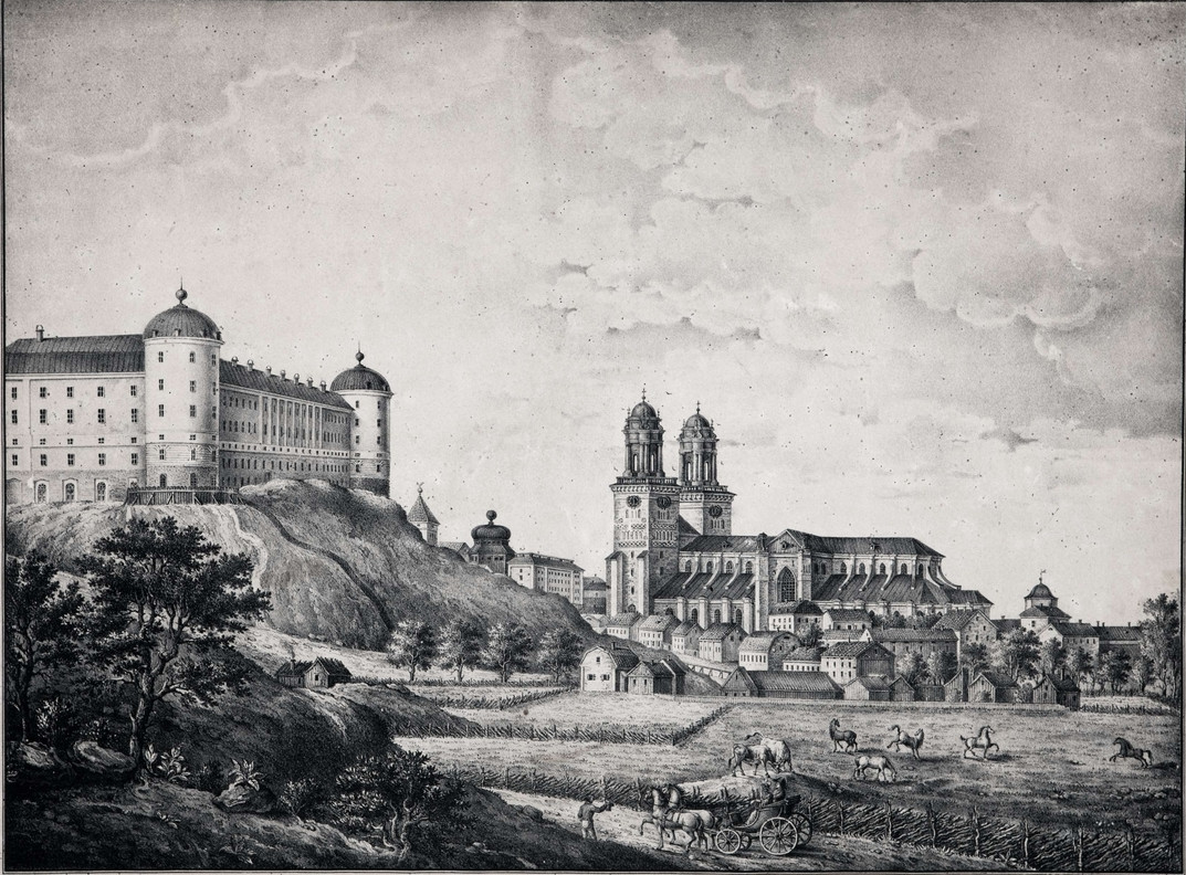 Copper engraving of Uppsala castle and Uppsala cathedral by C. A. von Scheele (1797-1873), after an oil painting by O. E. Roselius (dead 1830)